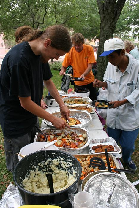 A meal being served by Food Not Bombs